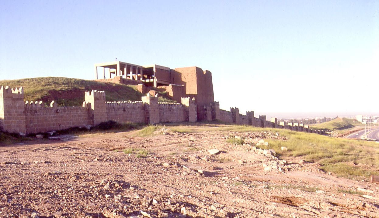 Original caption "Nineven: Adad Gate, View from north (outside city). Most visible structure is reconstruction. Lower portion of stone wall and merlons are original. Mound of unexcavated city wall extends right and left (April 1990)." View of Adad Gate at Nineveh from the North, outside city. Reconstruction by Iraqi excavator was left unfinished, resulting in visible concrete reinforcing structure which was intended to be covered with mudbrick. Most of stone retaining wall is original ancient structure. Reconstructed Nergal Gate is visible in the distance at right.